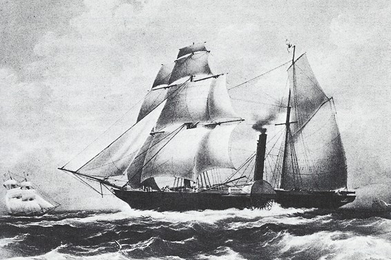 Lithograph of the Mexican 2-gun paddlewheel frigate ‘Guadalupe’ under steam and sail in a stiff breeze, with vessels to her right and left. Her deck is lined with figures front and aft. One of her two 68-pounder Pivot Guns is visible in her stern. Seagulls effortlessly skim the choppy waves, lending a lively atmosphere to the portrait. The first full-blown warship with a metal hull, the 1842 steam frigate Guadelupe. Constructed from French Naval Plans in the British shipyard of Jonathan Laird in Birkenhead, England